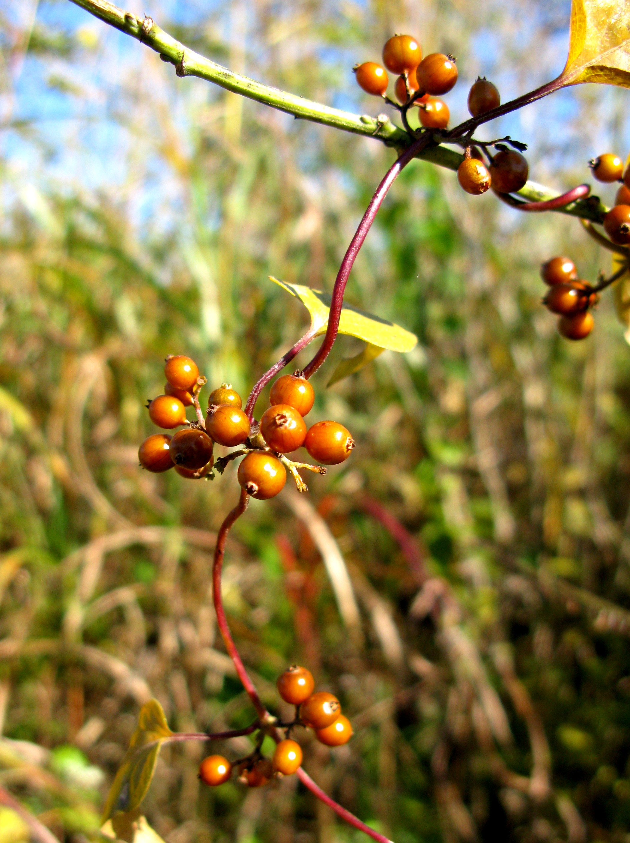 Paederia scandens ,Aizu area, Fukushima pref., Japan